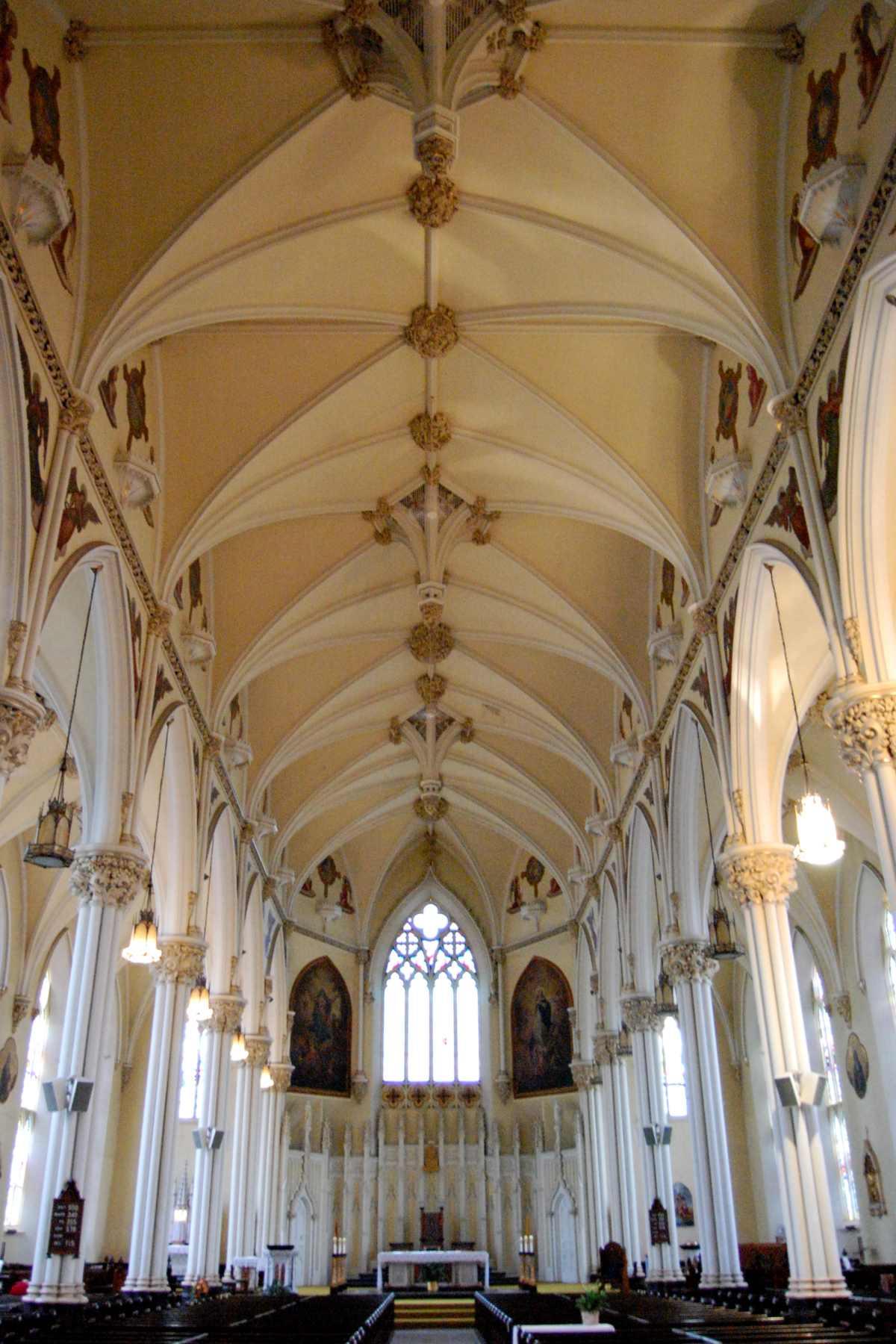 The interior of St. Mary's Cathedral in Kingston, Ontario, Canada.